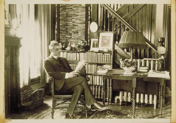 President Charles Lewis Beach at home, Connecticut Agricultural College (now the University of Connecticut), 1924